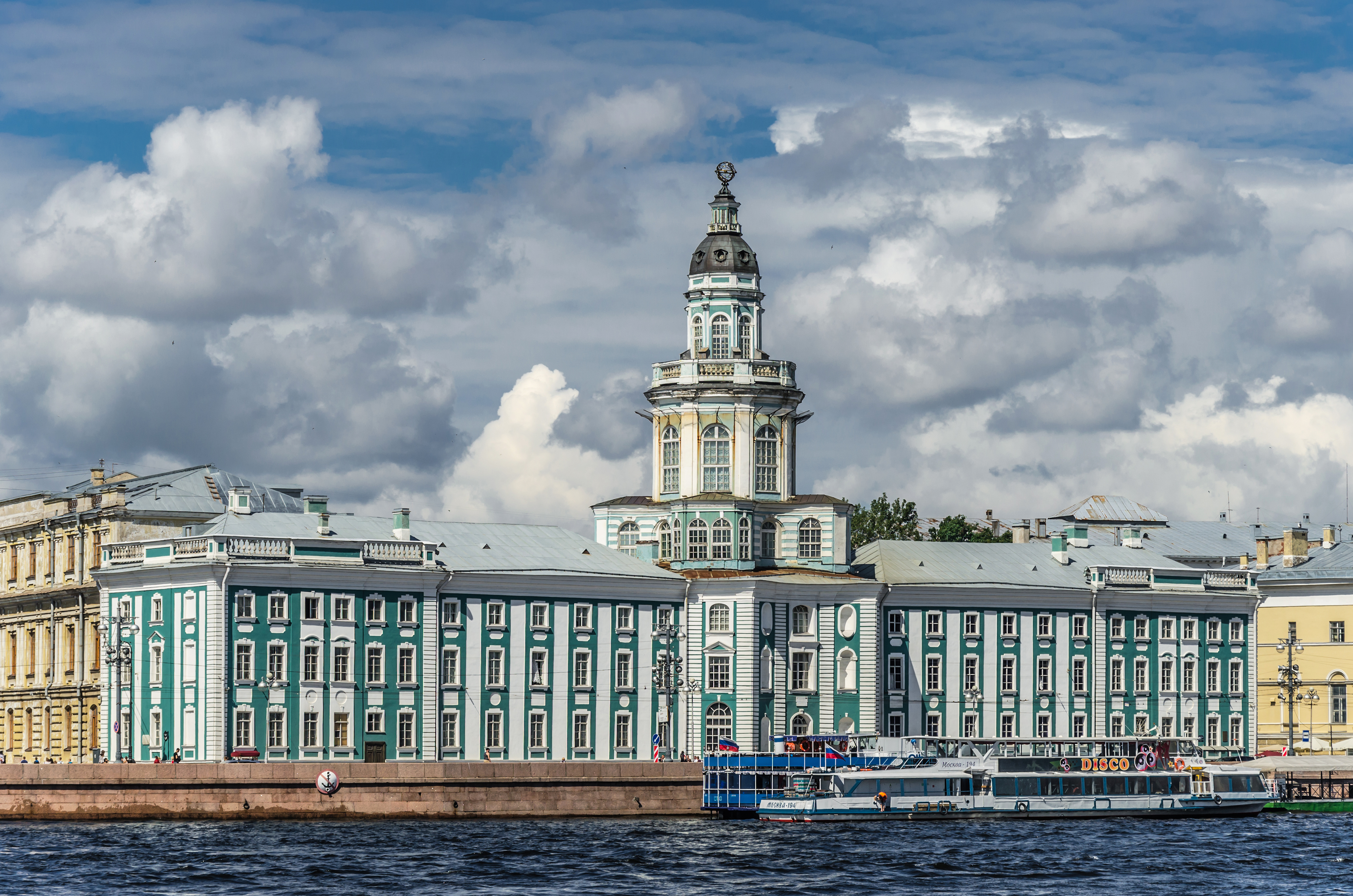 Kunstkamera (Peter the Great Museum of Anthropology and Ethnography) in Saint Petersburg.